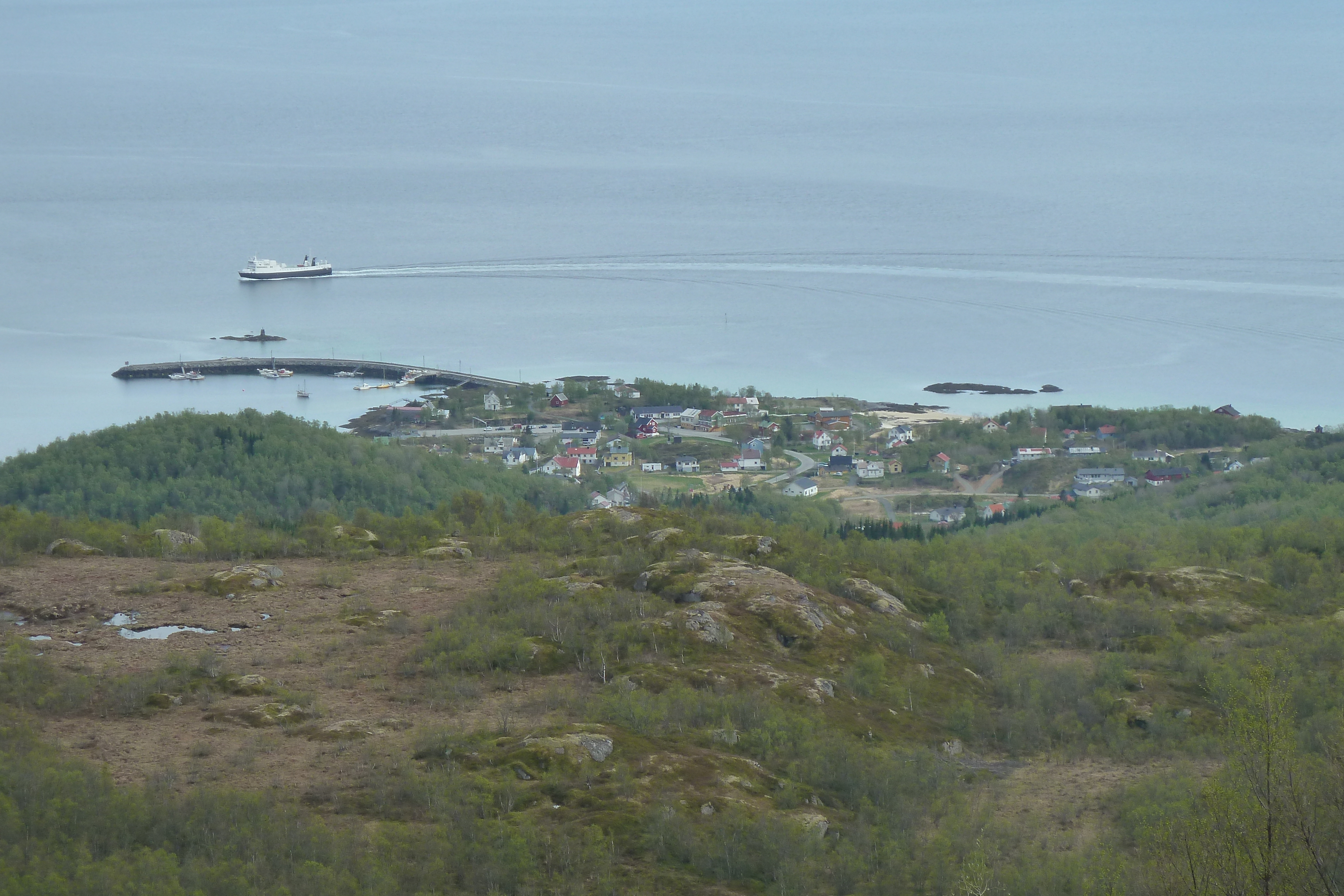 Skutvik seen from the Salen mountain. Norsk (bokmål): Skutvik sett fra Salen.